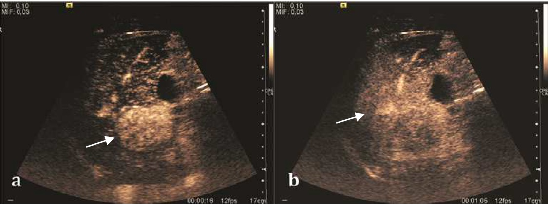 Contrast-enhanced ultrasound of an encephaloid hepatocellular carcinoma